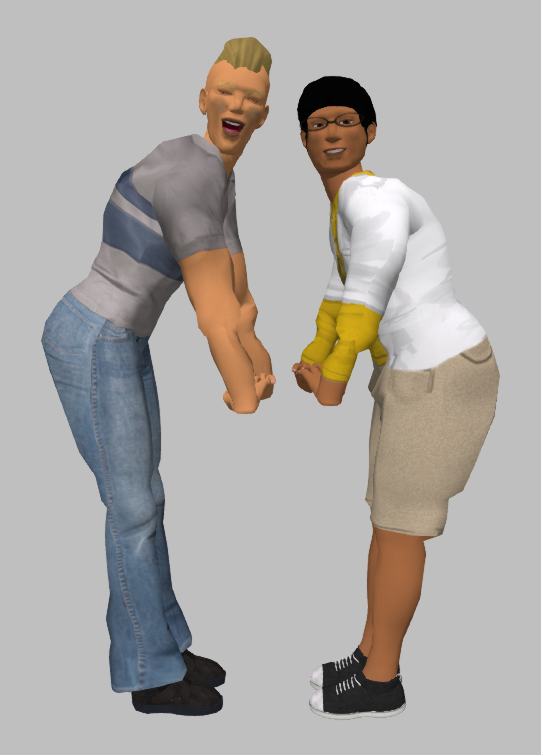 The trademark posture of Kyaeen (Japanese comedy duo)